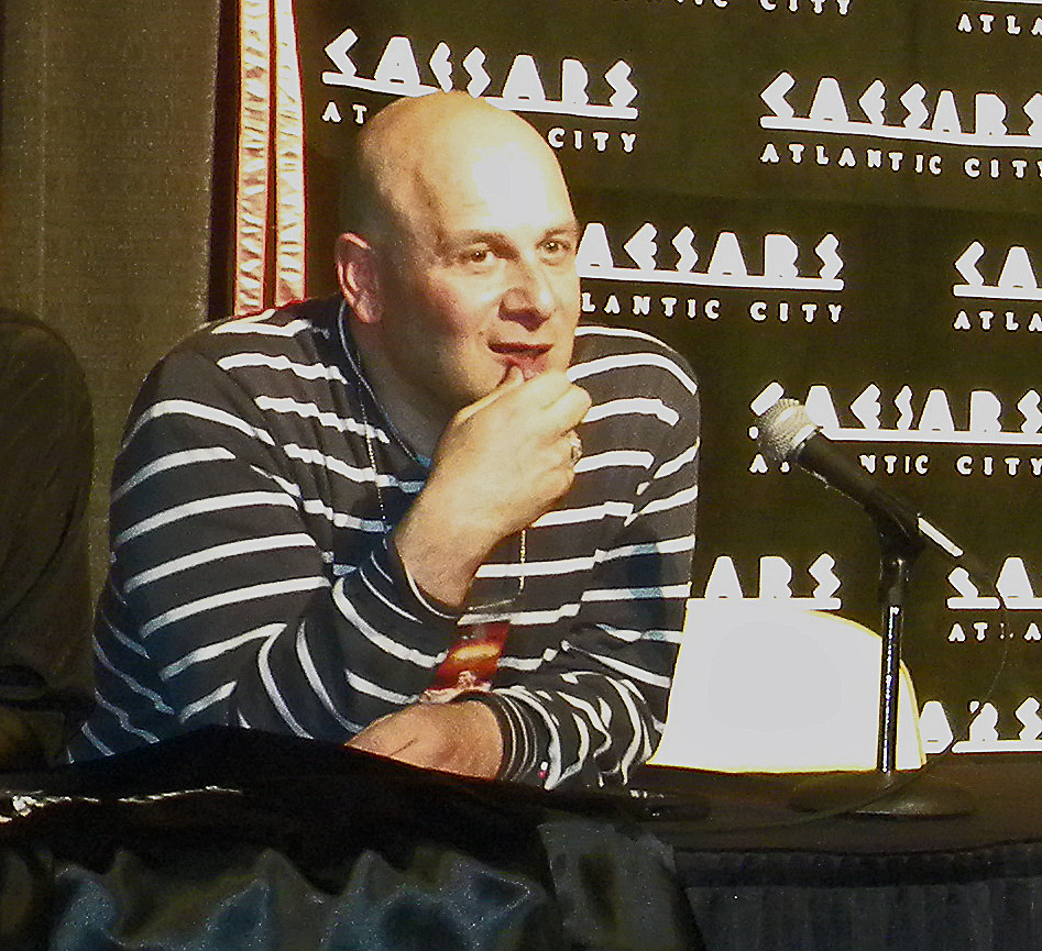 Boxing promoter Lou DiBella at a press conference at Boardwalk Hall in Atlantic City in April 18, 2010.